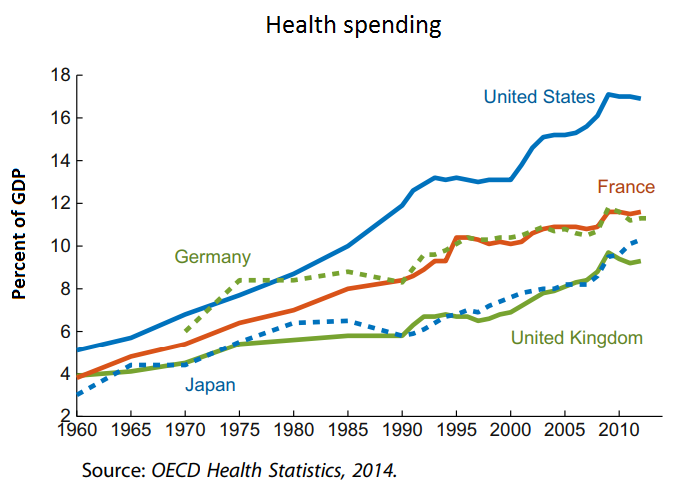 Health spending as a share of GDP